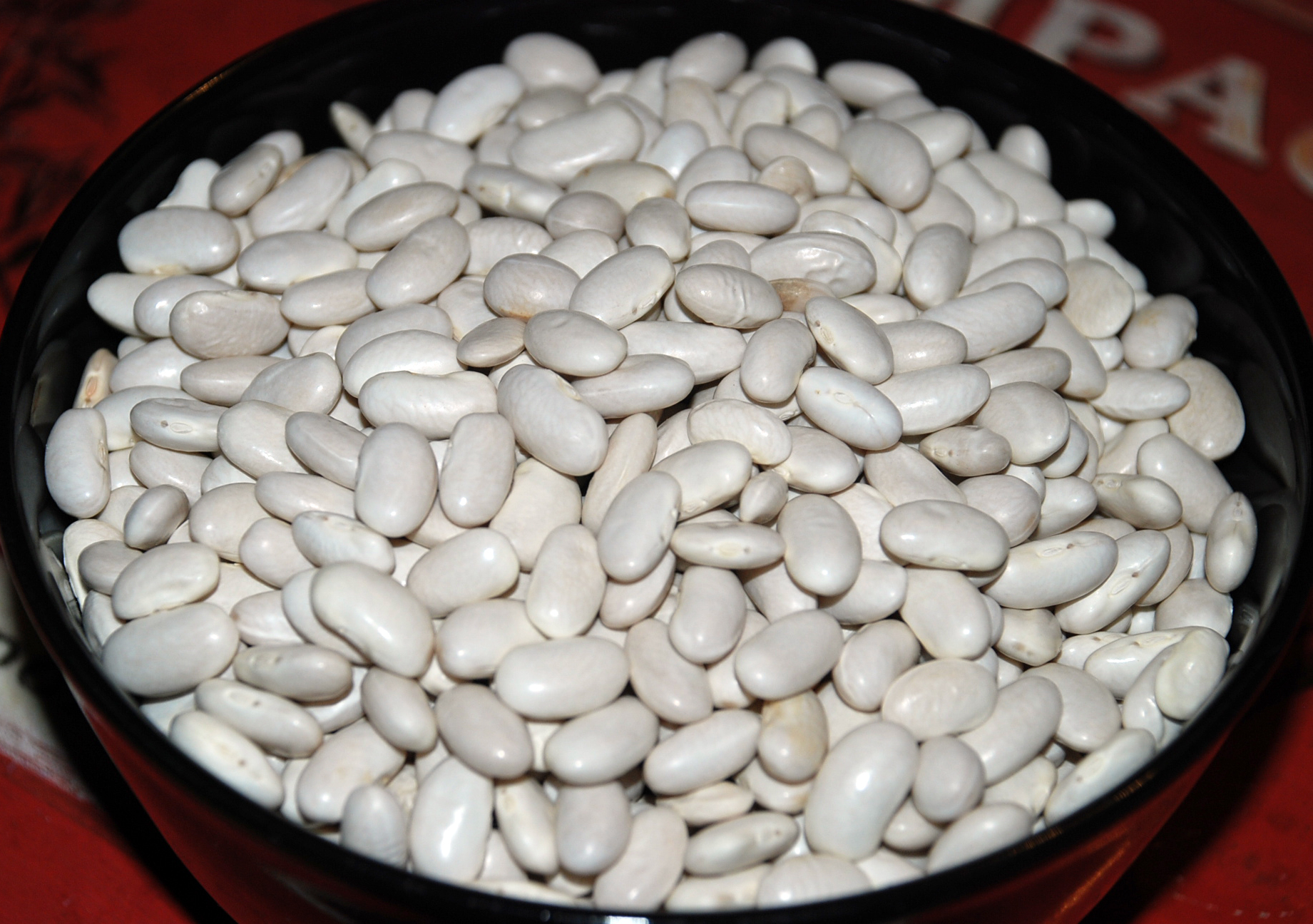 White beans of Saldaña (Palencia, Castile and León).